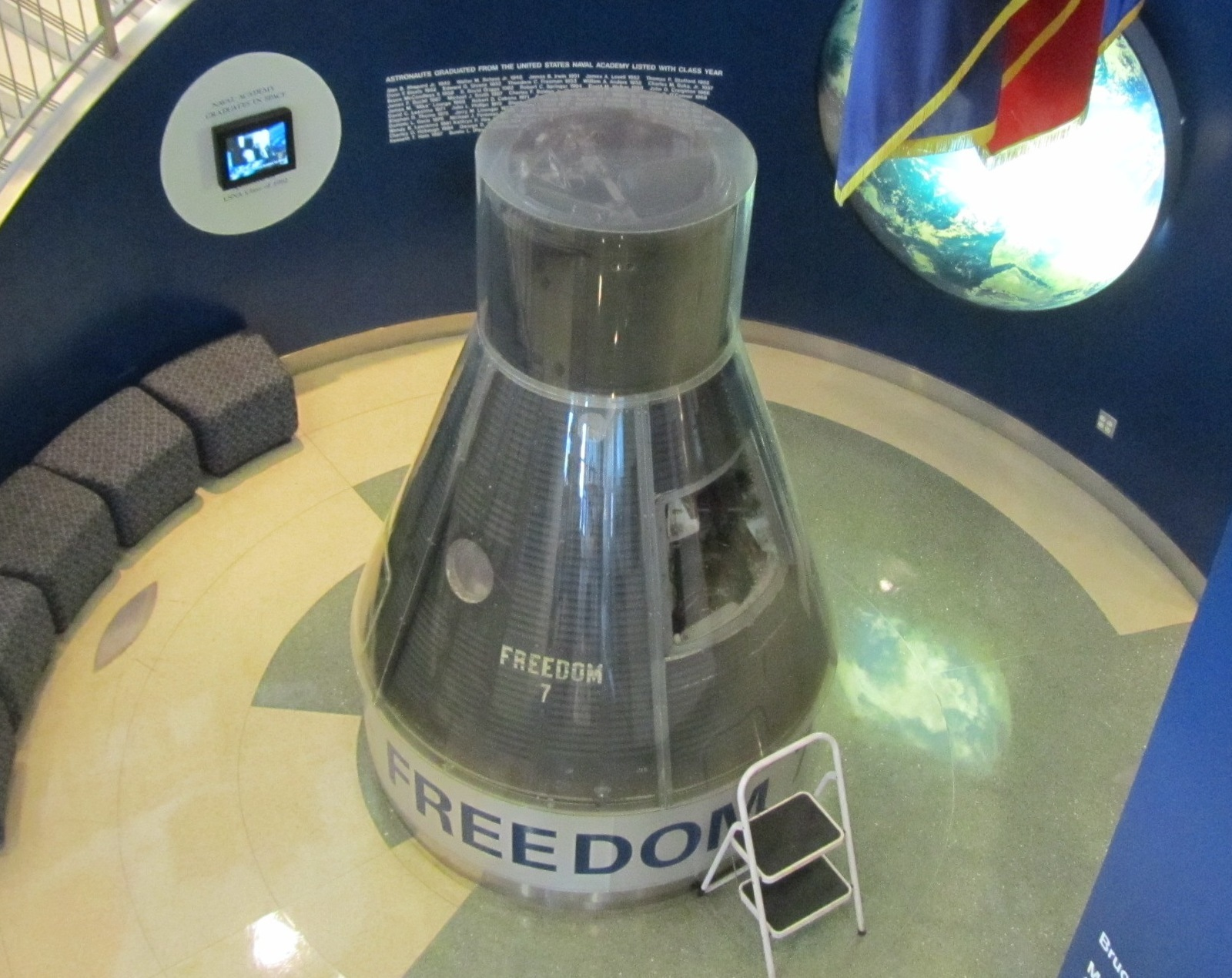 MR-3 Freedom 7 U.S. Naval Academy, Visitor Center, Anapolis, MD